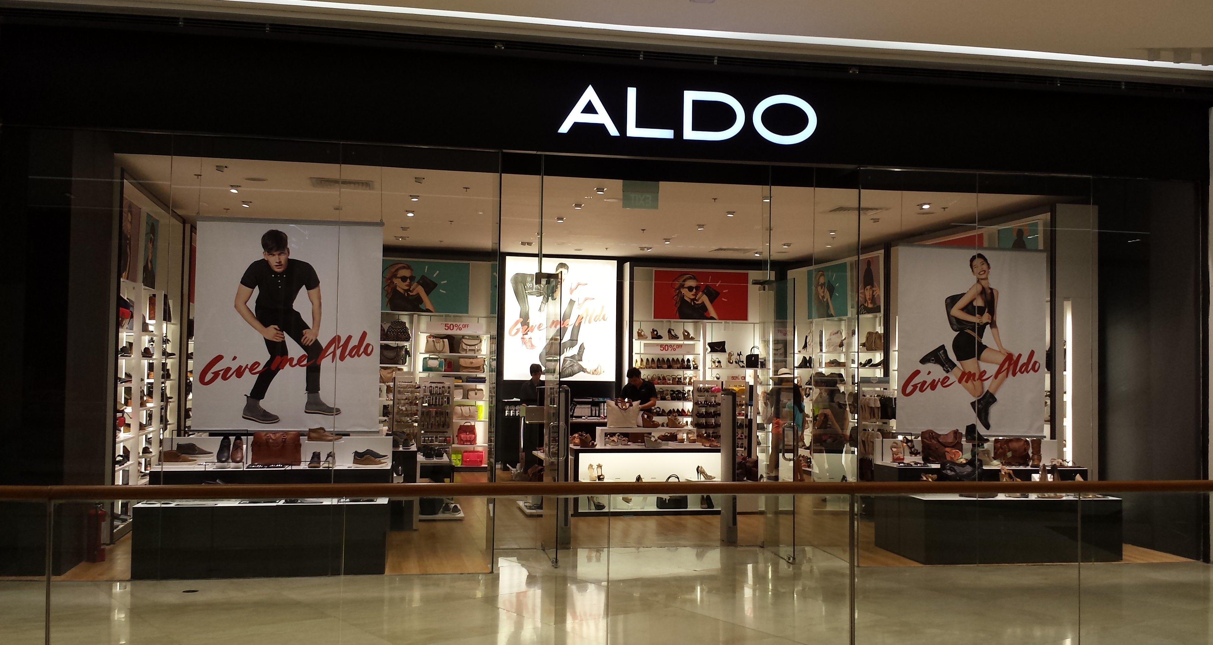 An Aldo store in the mall 'SM Aura Premier' in Bonifacio Global City, Metro Manila, Philippines.